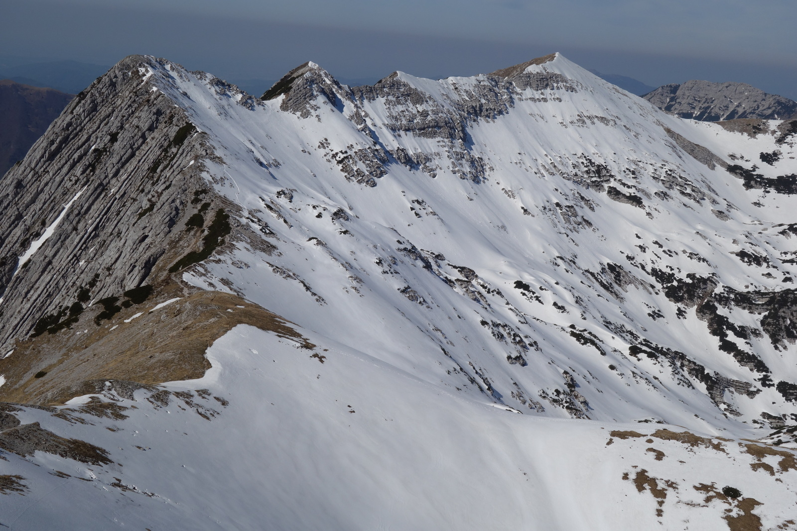 Rodica